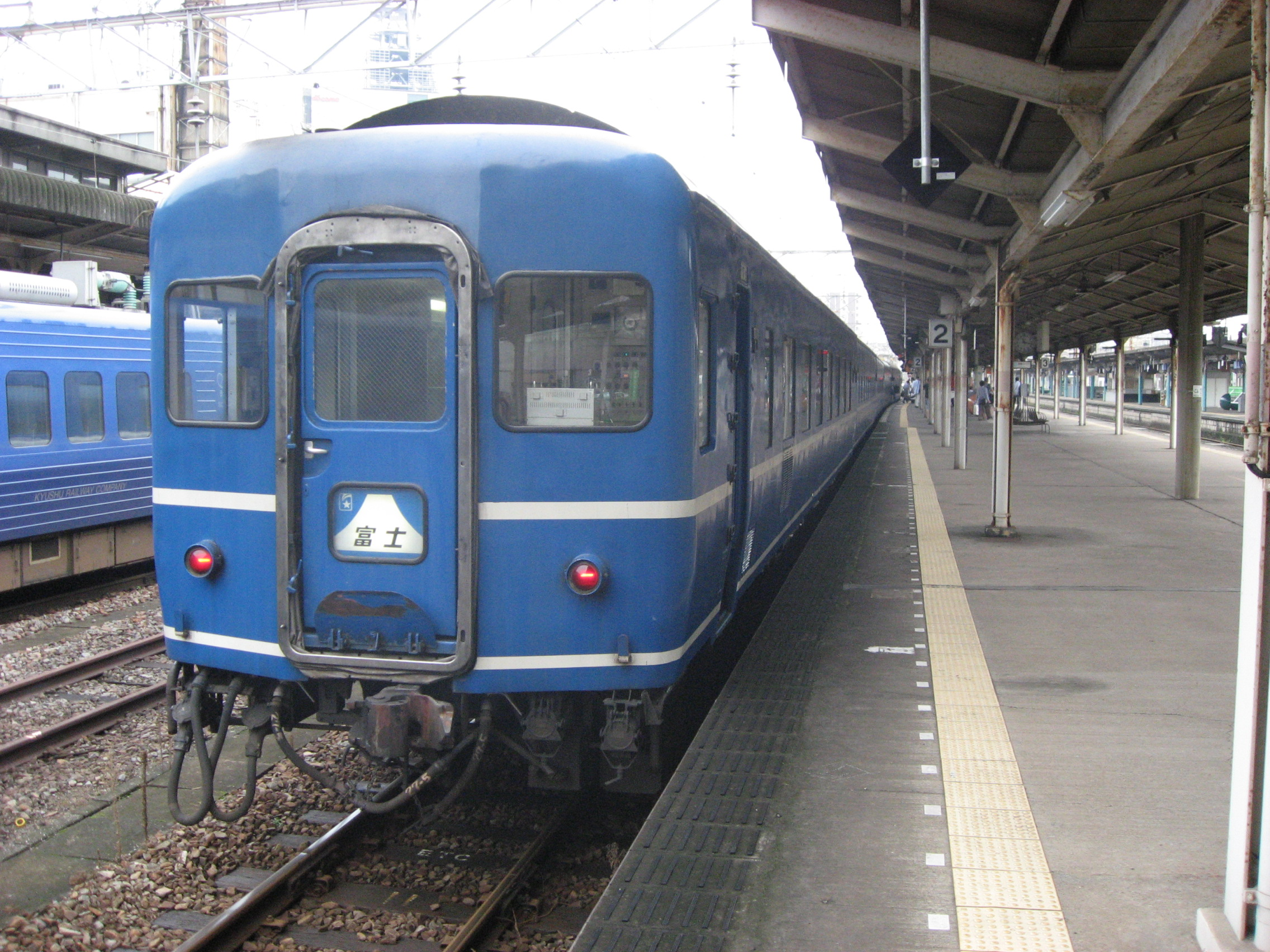 Japanese sleeper limited express "Fuji" at Ōita Station. Ōita was the terminal of this train at that time, and it photographed just after it's arrival.